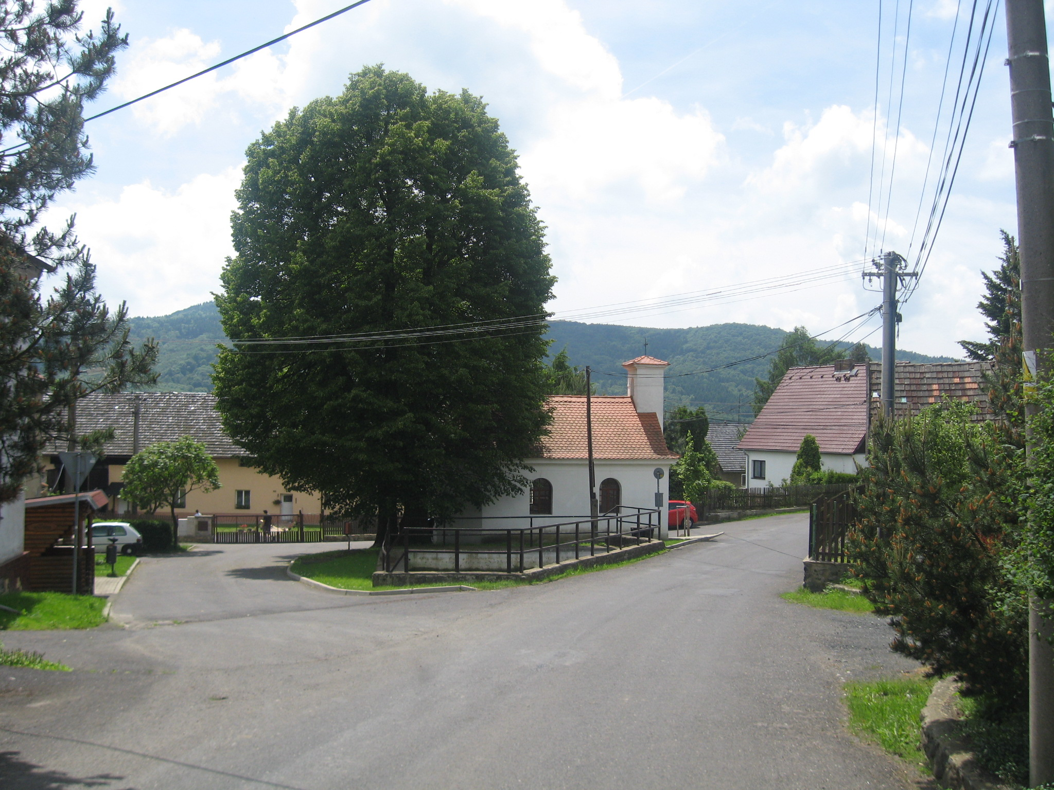 Lukov (Teplice District) - Village Square